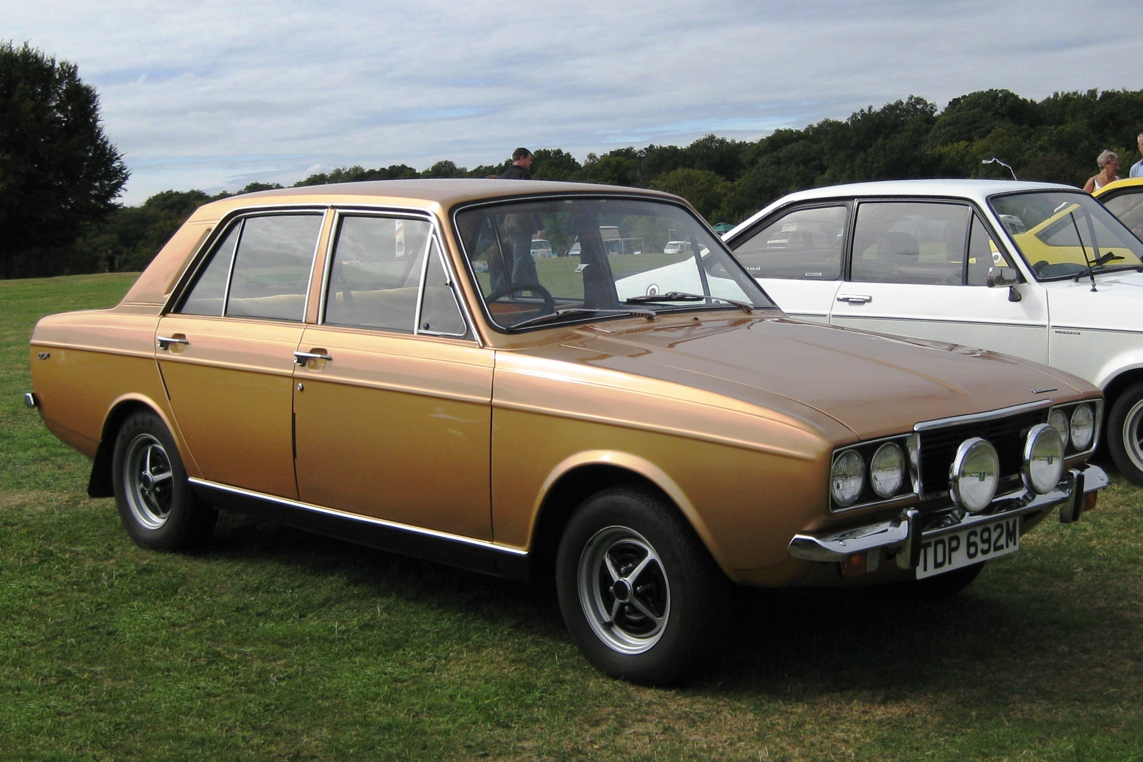 Hillman Hunter: a late one